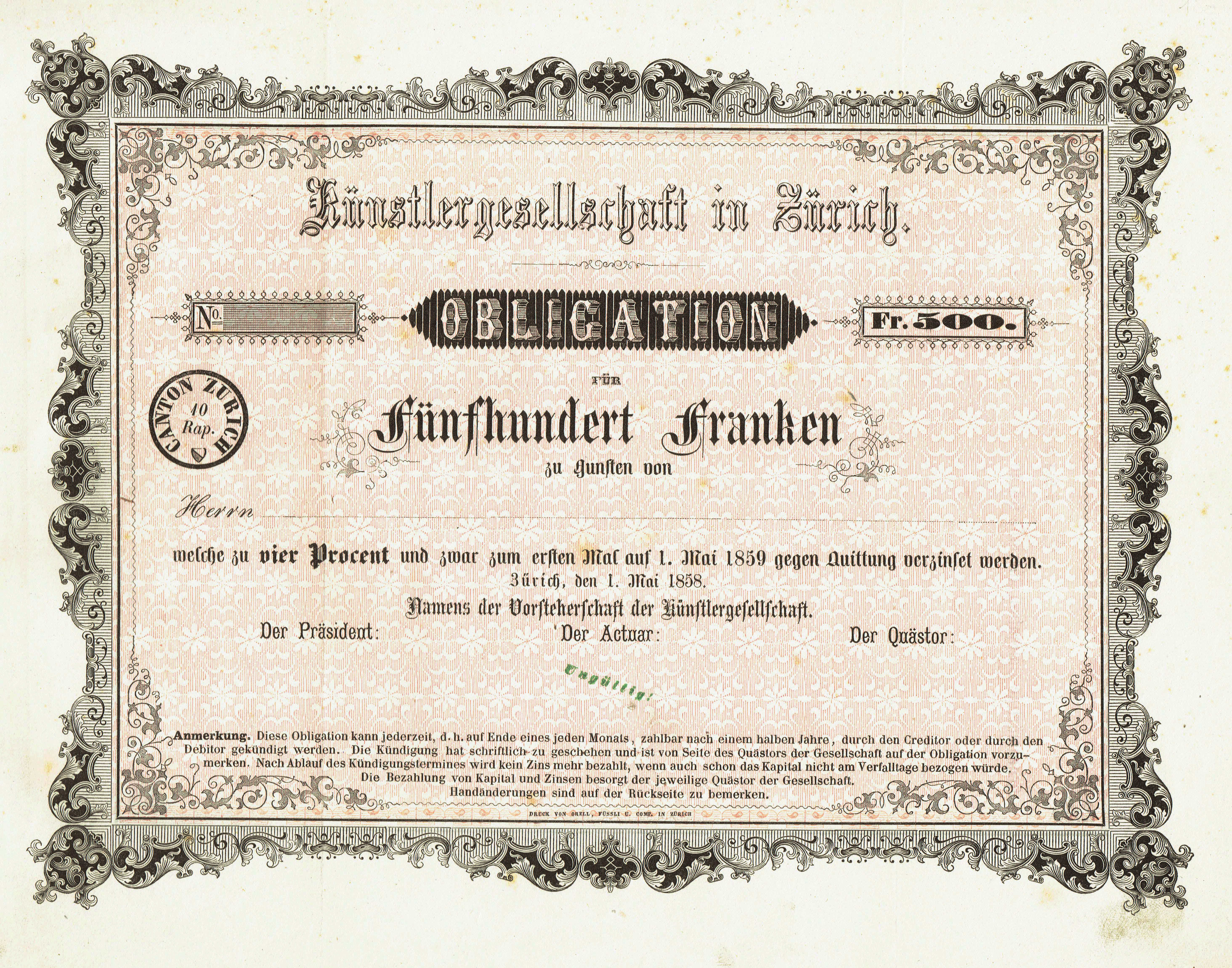 Bond of the Künstlergesellschaft in Zurich, unissued